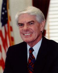 Jerry Lewis (politician), member of the United States House of Representatives.